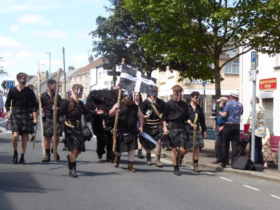 Helliers taking the beast through Bodmin Town